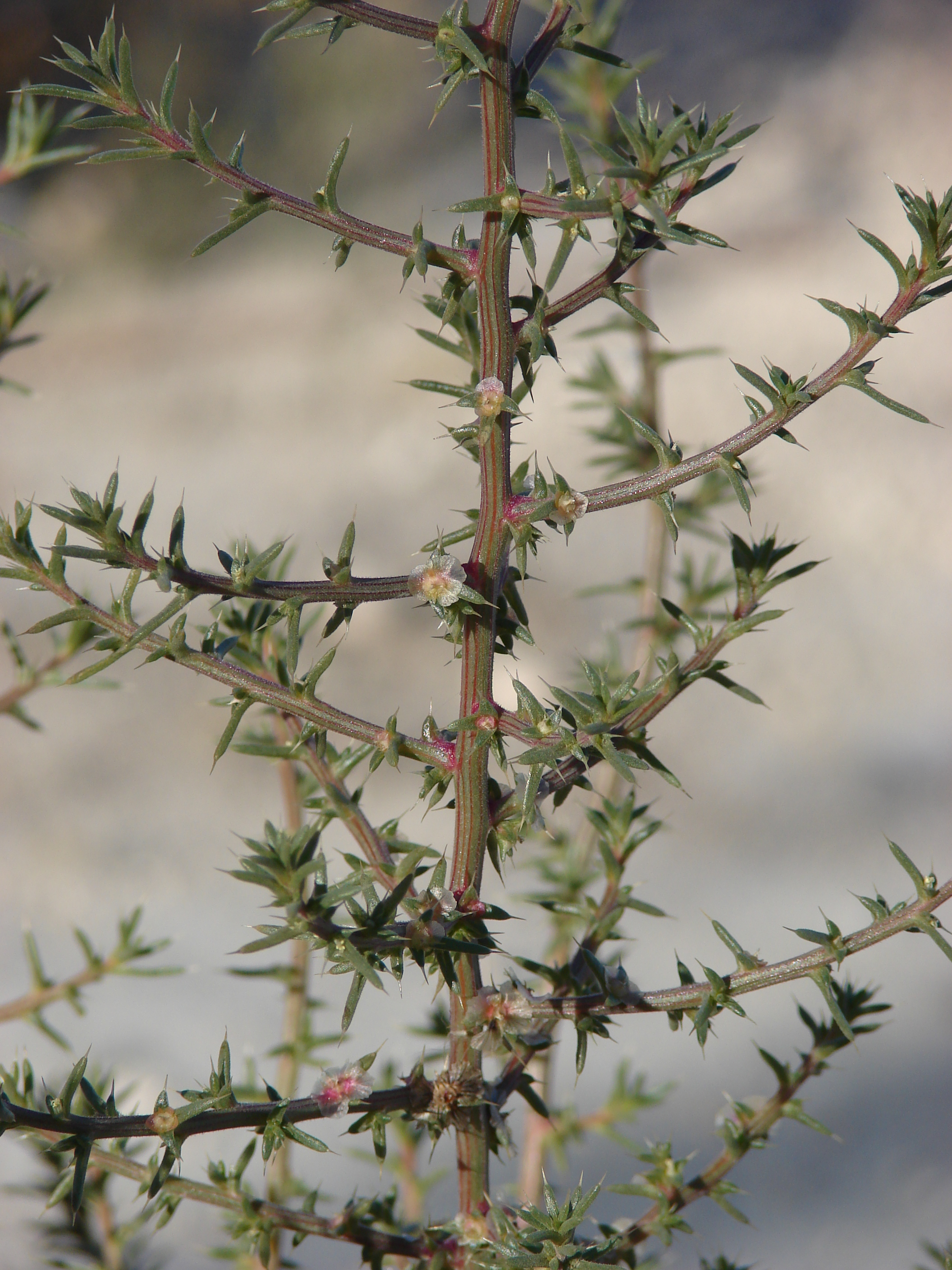 Kali tragus (spiny branches). Location: Nevada, lot next to Holiday Inn Express Las Vegas